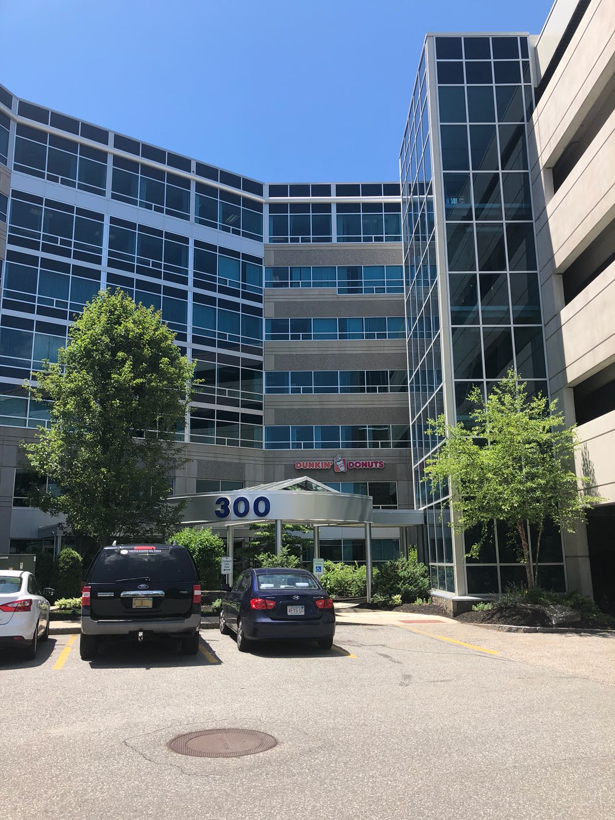 Pictorial view of one of Allot's offices